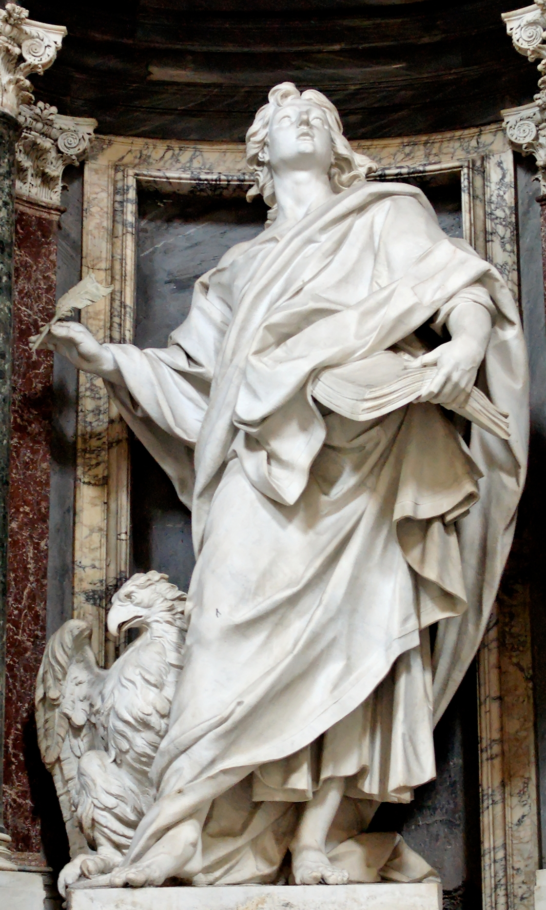 St. John by Camillo Rusconi. Nave of the Basilica of St. John Lateran (Rome).